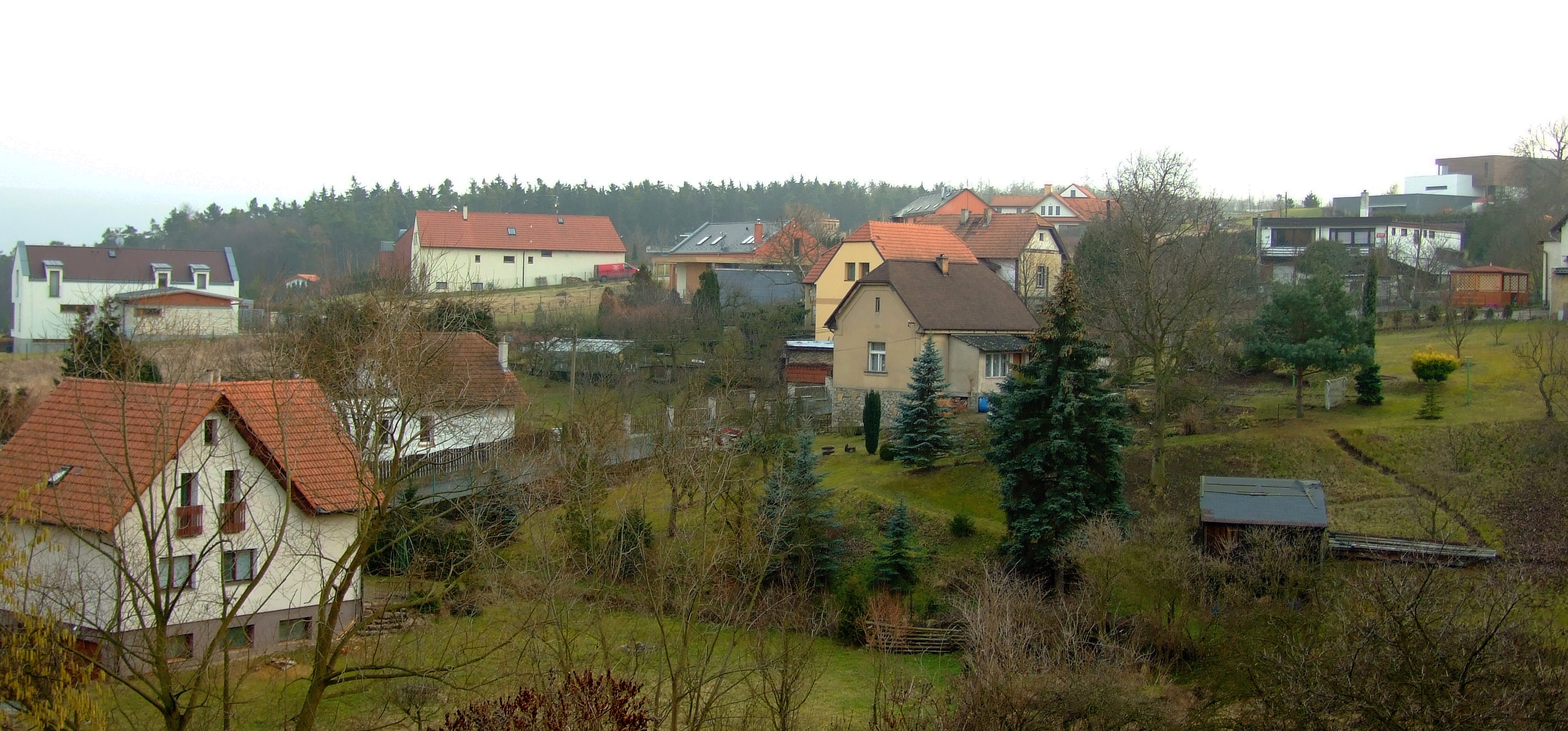 Town Vonoklasy in Central Bohemian region, CZhelp